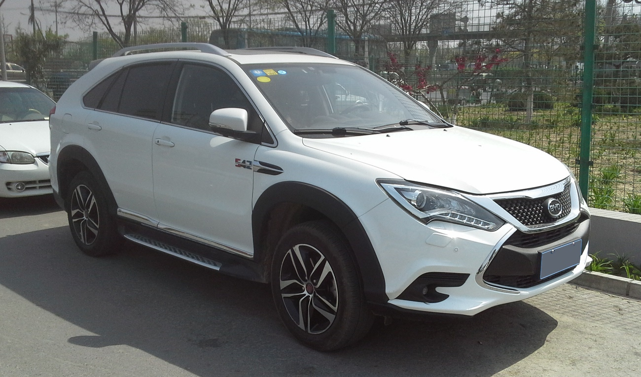 BYD Tang photographed in Beijing, China.